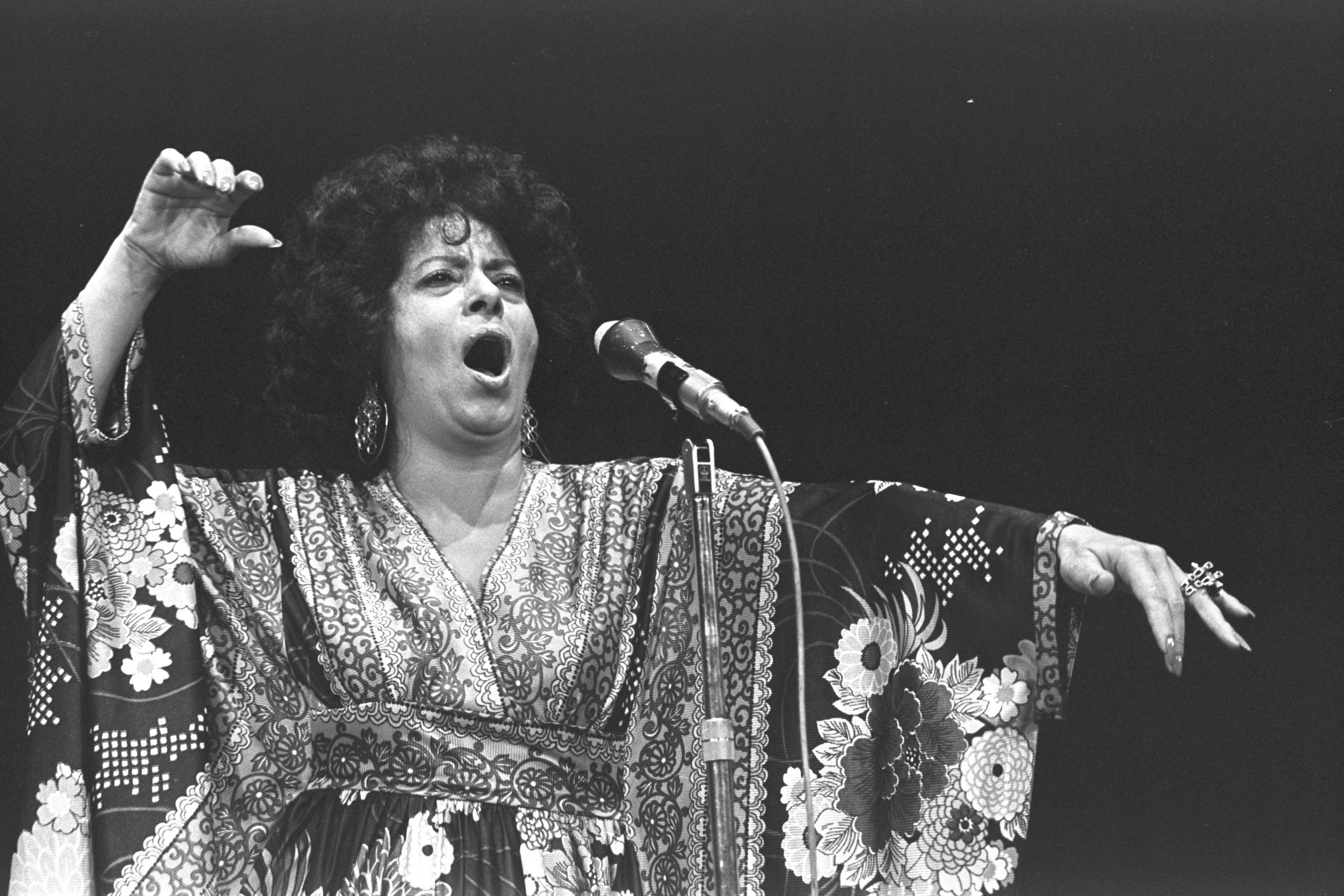 Israeli folk singer Shoshana Damari singing during a Druze Evening in the Tsavta Club in Tel Aviv.